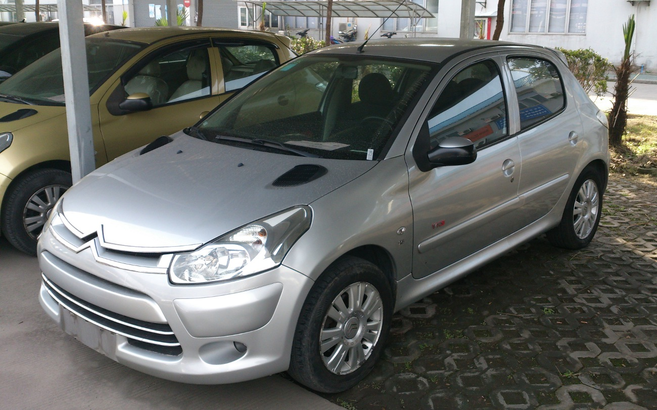 Citroën C2 CN photographed in Shanghai, China.